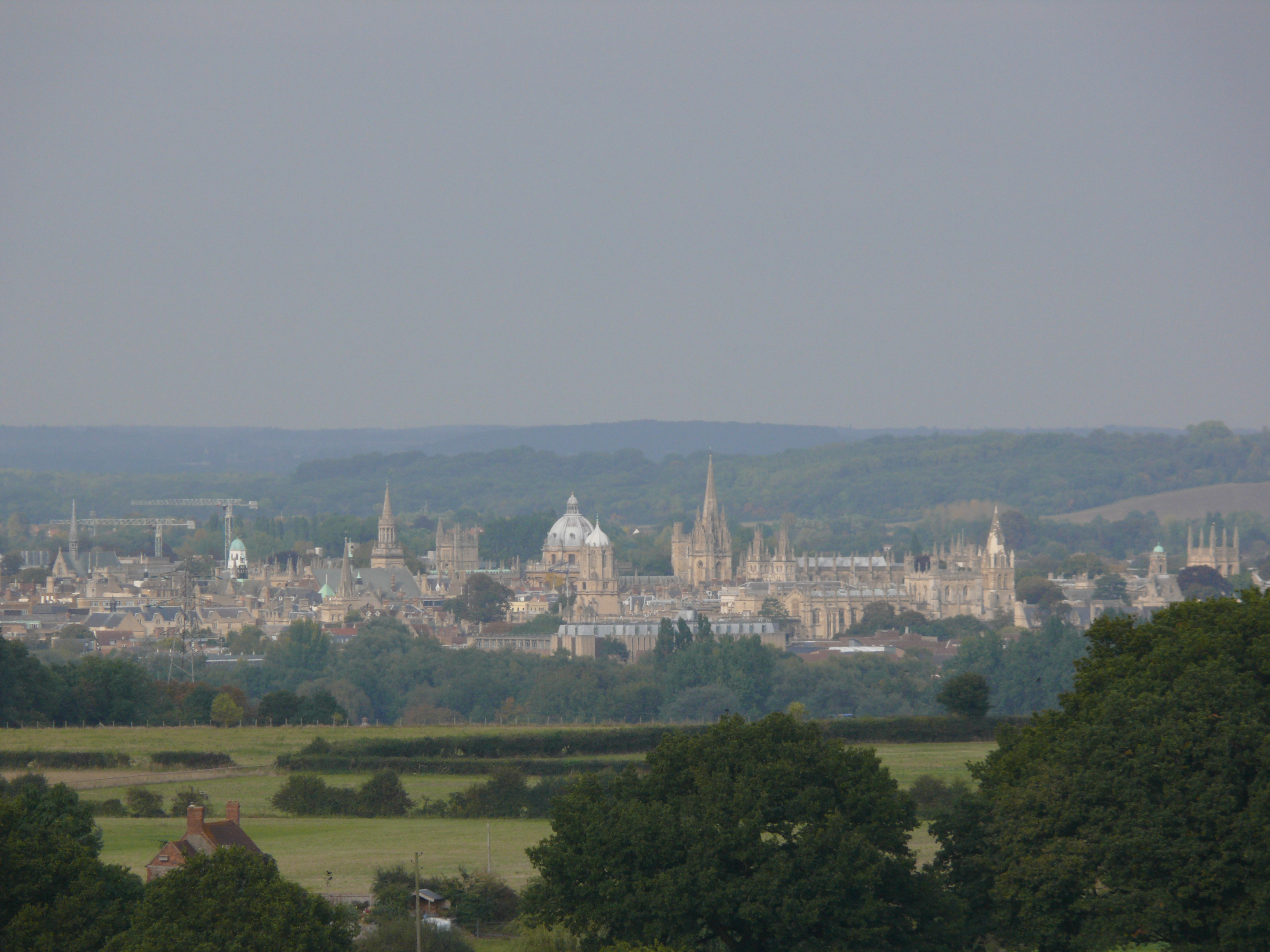 Oxford, photographed from Boars Hill